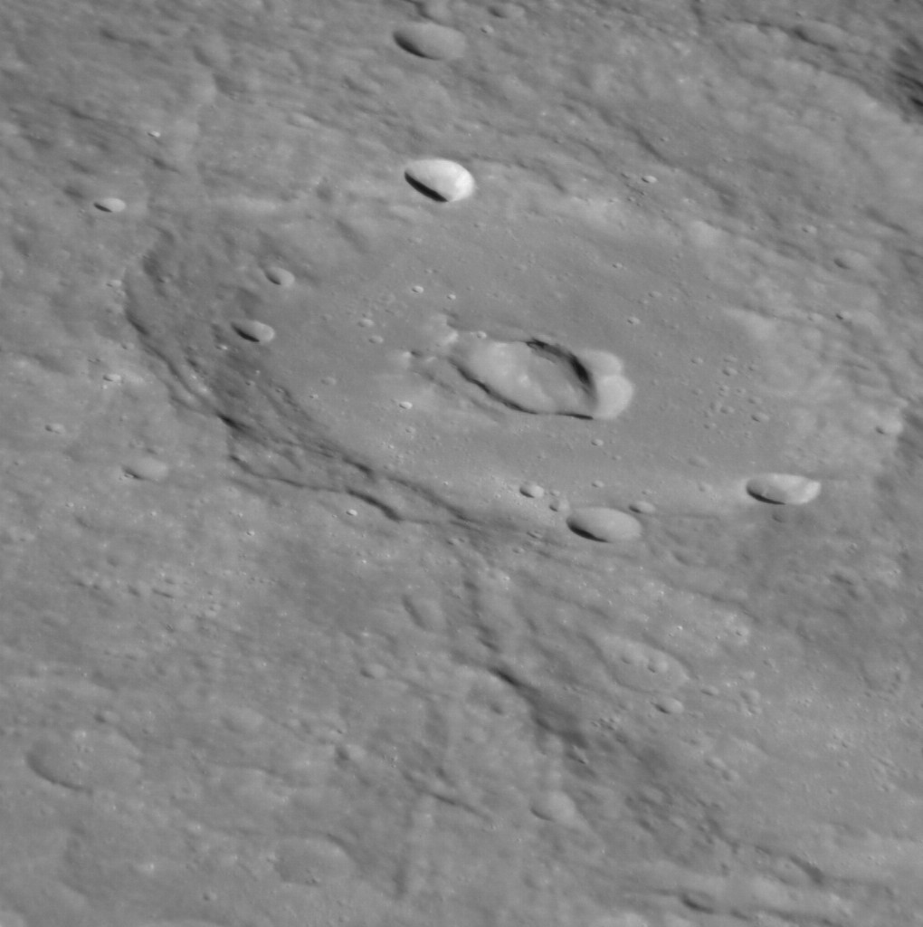 Oblique view of Capote crater on Mercury. MESSENGER Narrow Angle Camera image. South is at top. Width is about 104 km in foreground. Emission Angle: 58.7 Incidence Angle: 67.3 Latitude: -20.8 Longitude: 73.0 Phase Angle: 28.2